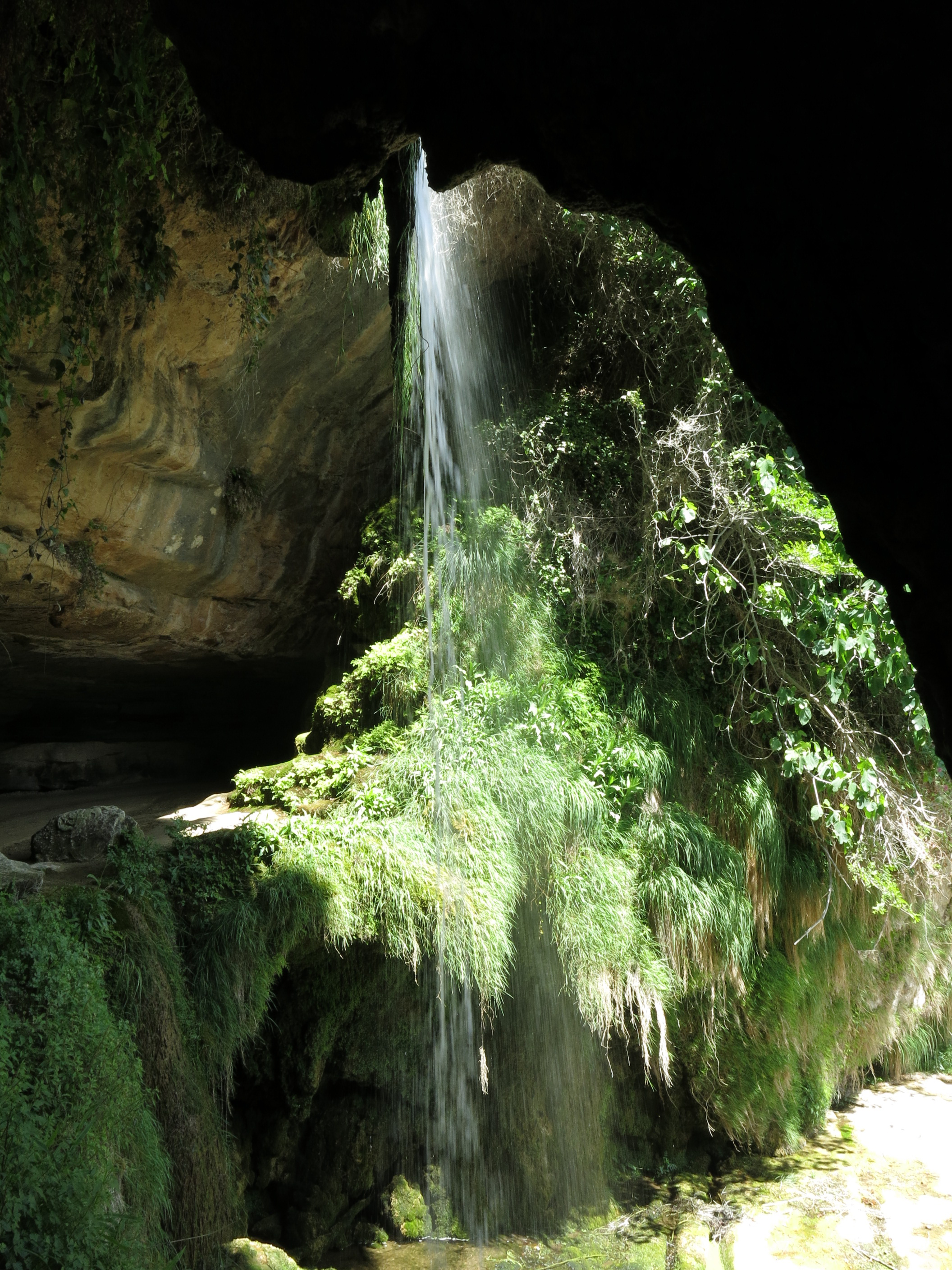 This is a a photo of a natural area in Catalonia, Spain, with id: ES510097